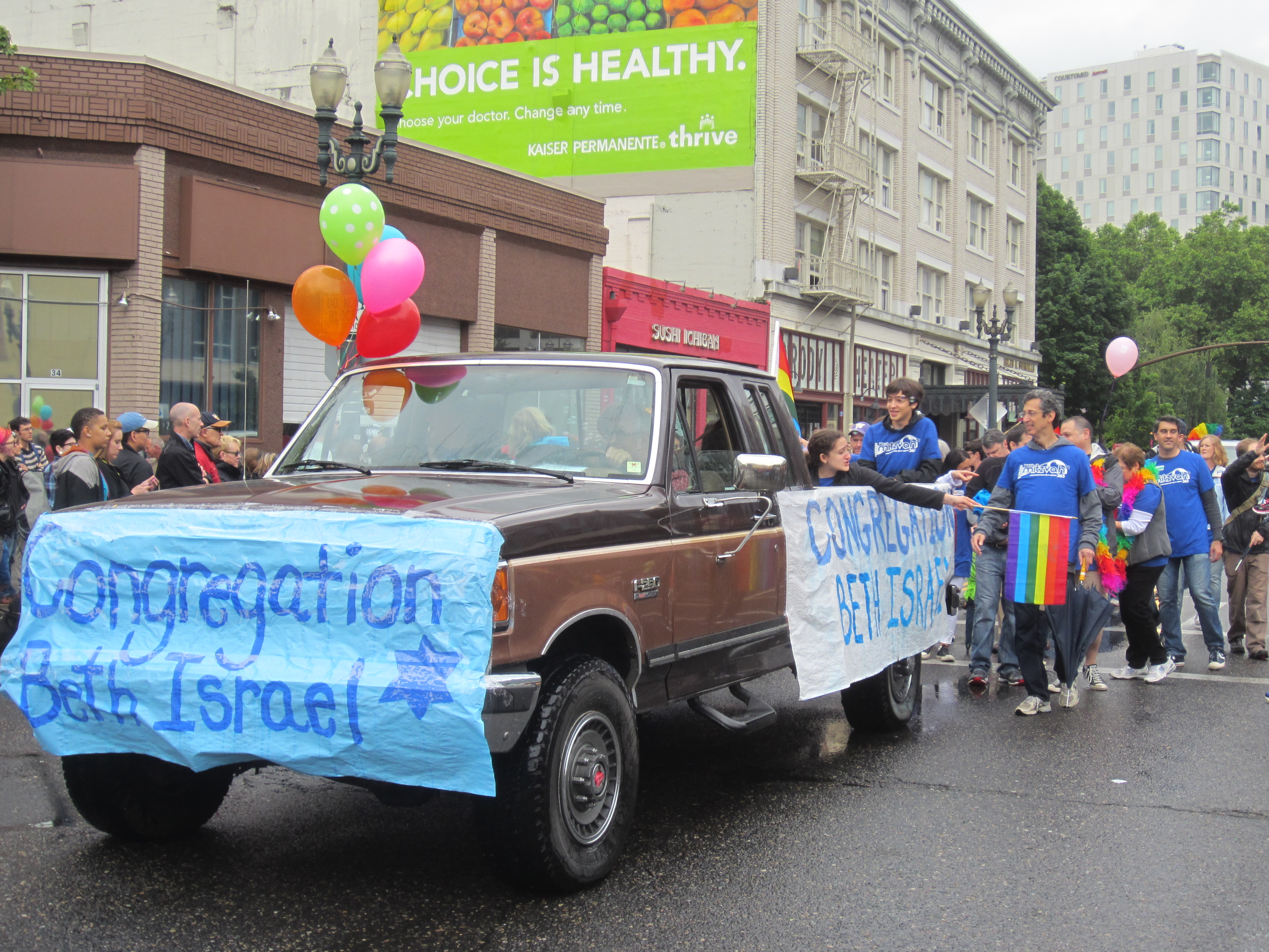 Portland Pride Parade (Oregon), June 14, 2014